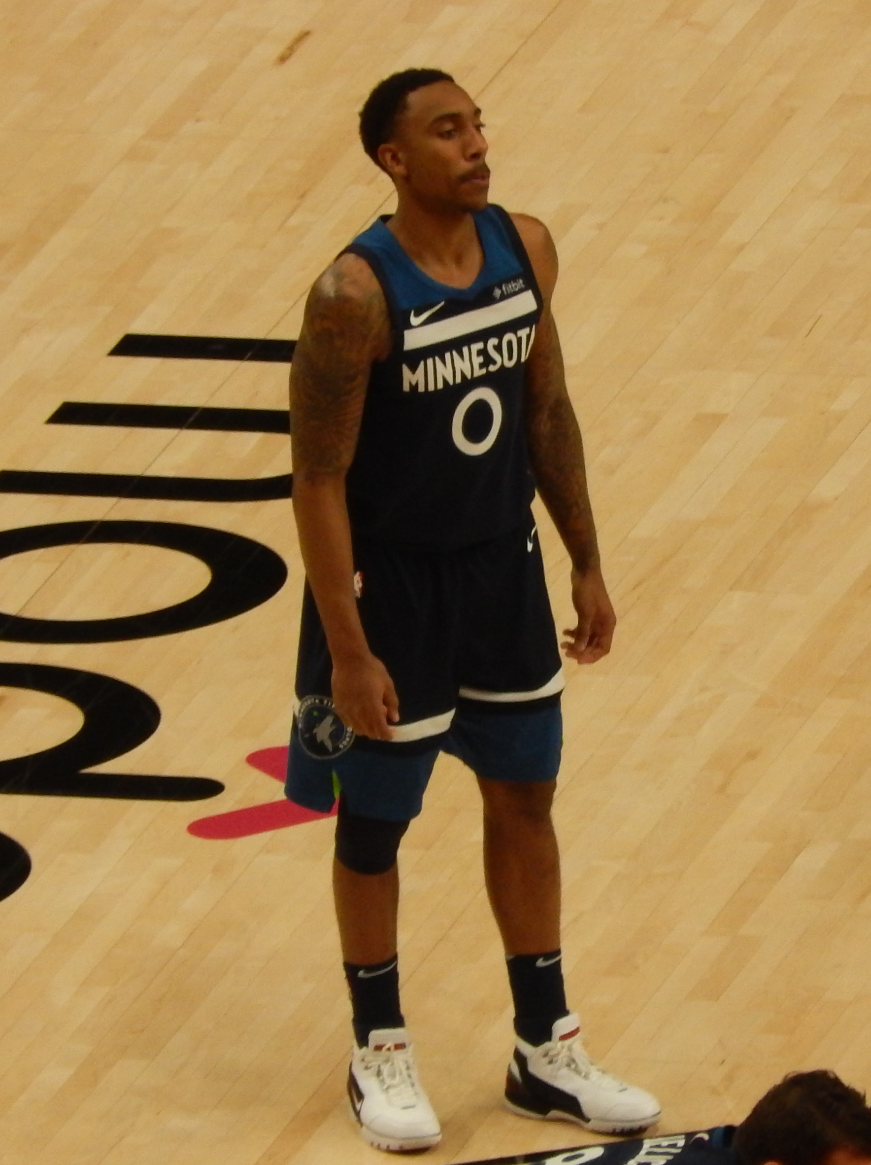 Jeff Teague #0 of the Minnesota Timberwolves against the Portland Trail Blazers on March 1, 2018 at Moda Center in Portland, Oregon.